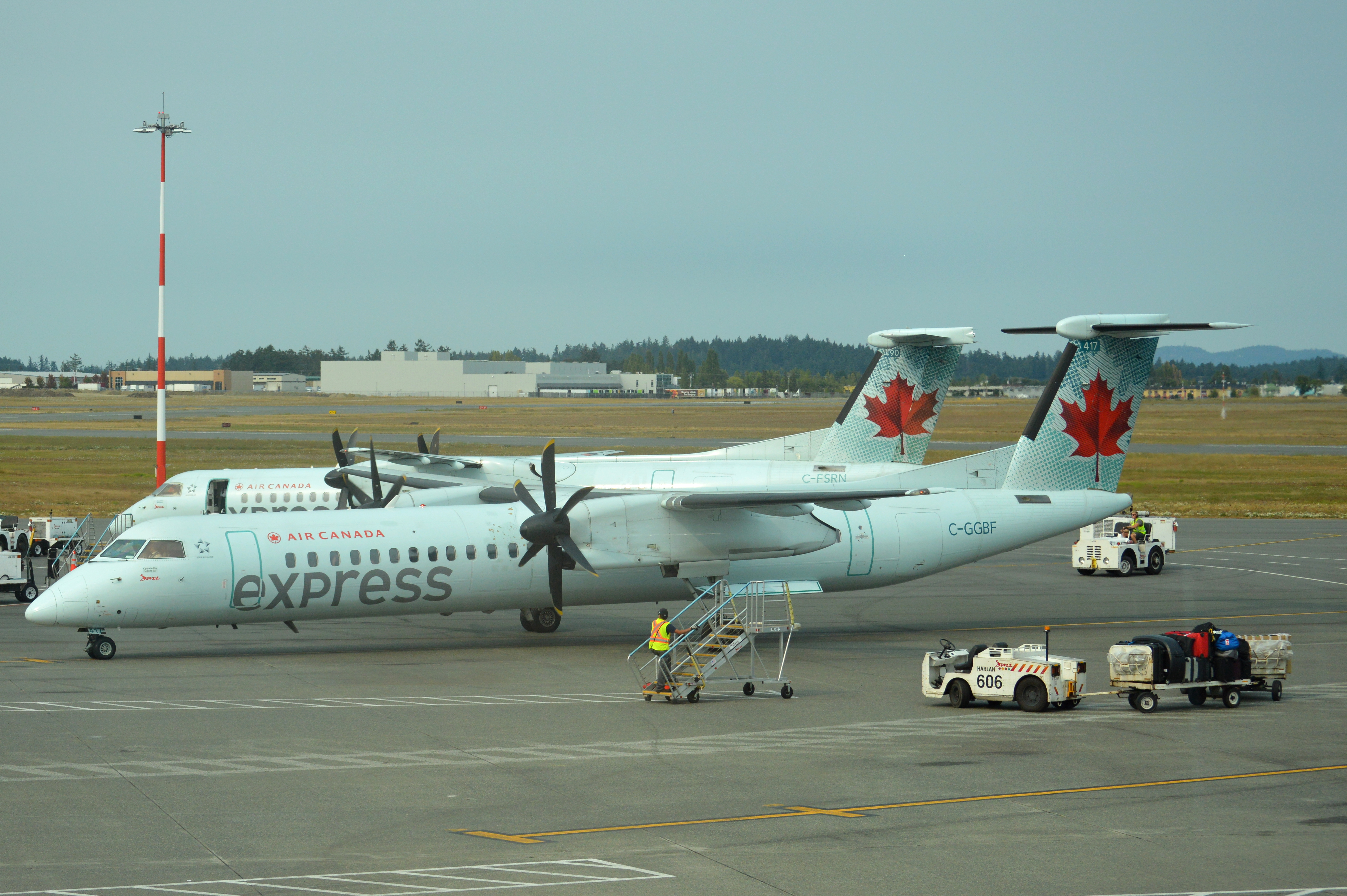 A couple Air Canada Express (Jazz) Q400 aircraft at Victoria International Airport, August 2018.